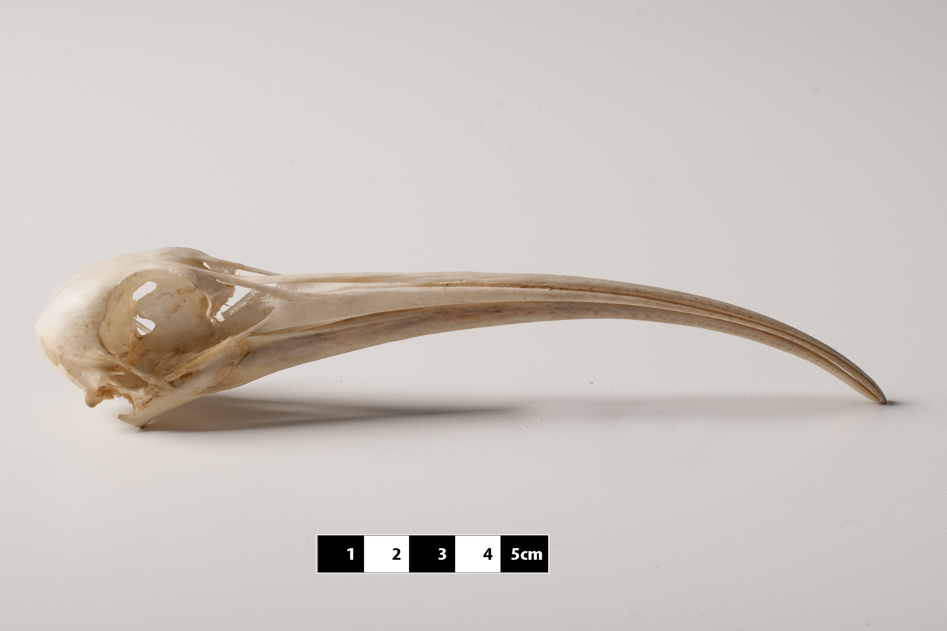 Scarlet Ibis skull “Eudocimus ruber”. Technique of bone maceration on display at the Museum of Veterinary Anatomy, FMVZ USP.